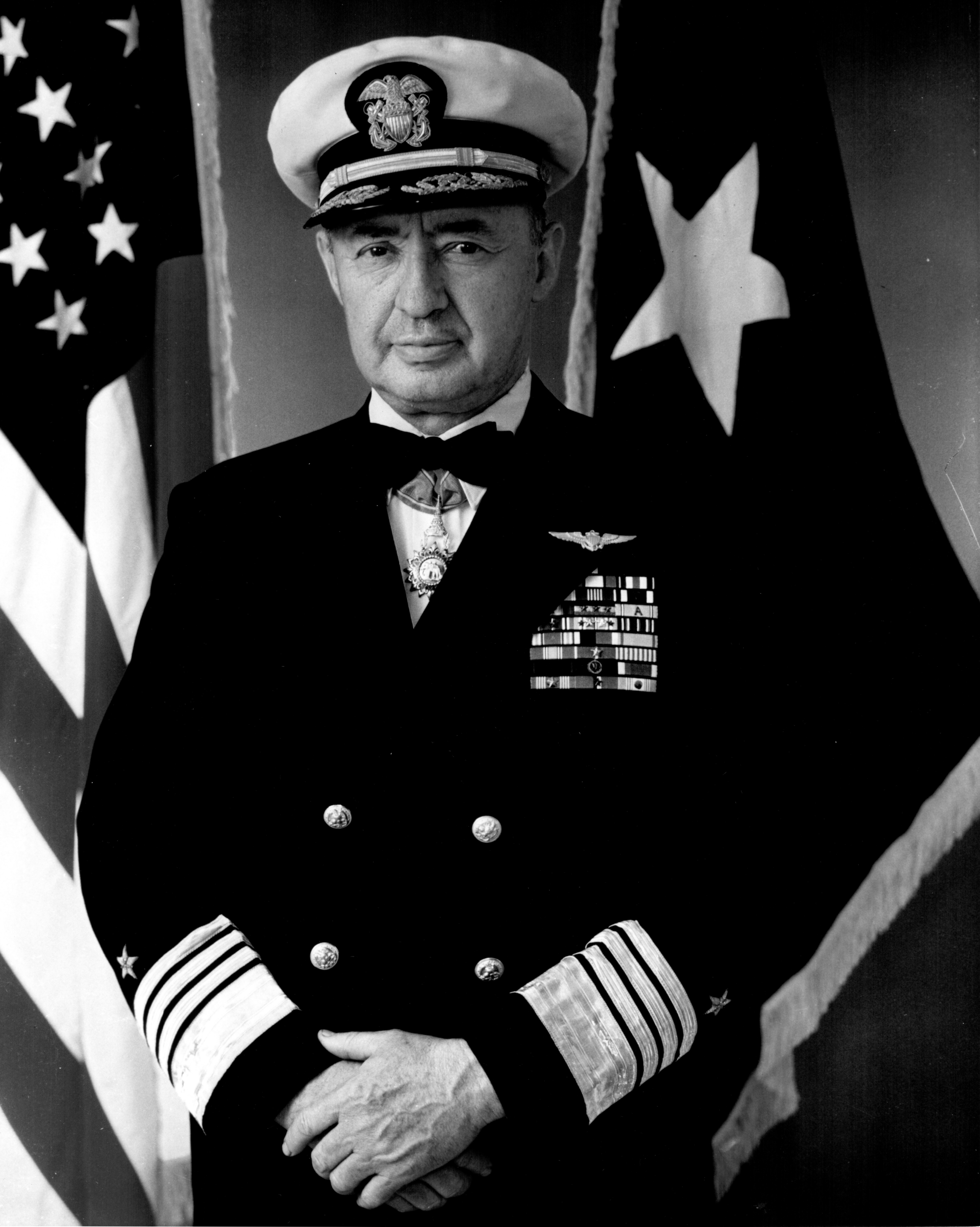 Admiral Joseph J. Clark, USN